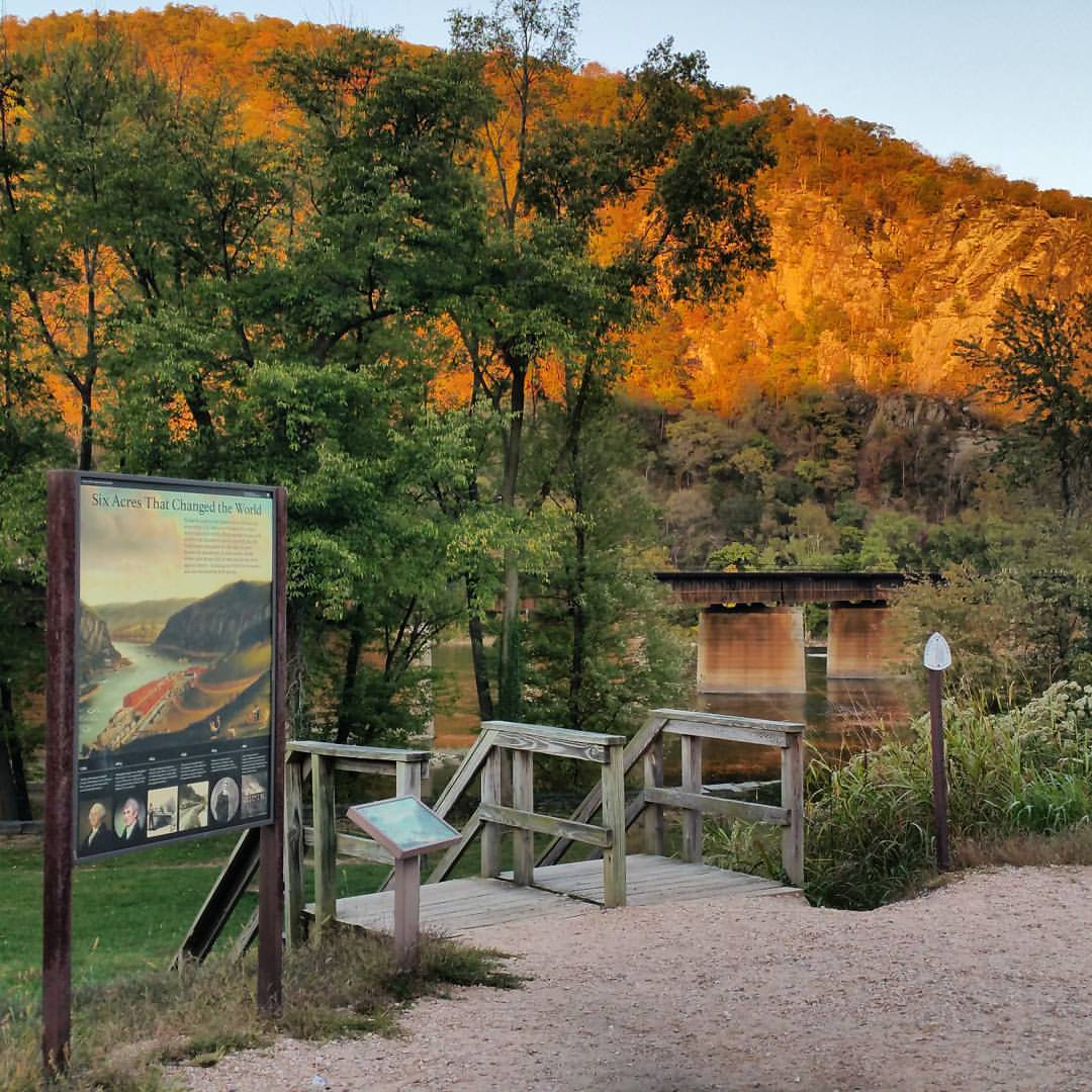 Overlooking the U.S. Armory (Musket Factory) archeology site, at sunset today. We still have lots of green on the heights, but trees in lower town are showing about 30-50% color change. (NPS Photo/Hammer) ~mh